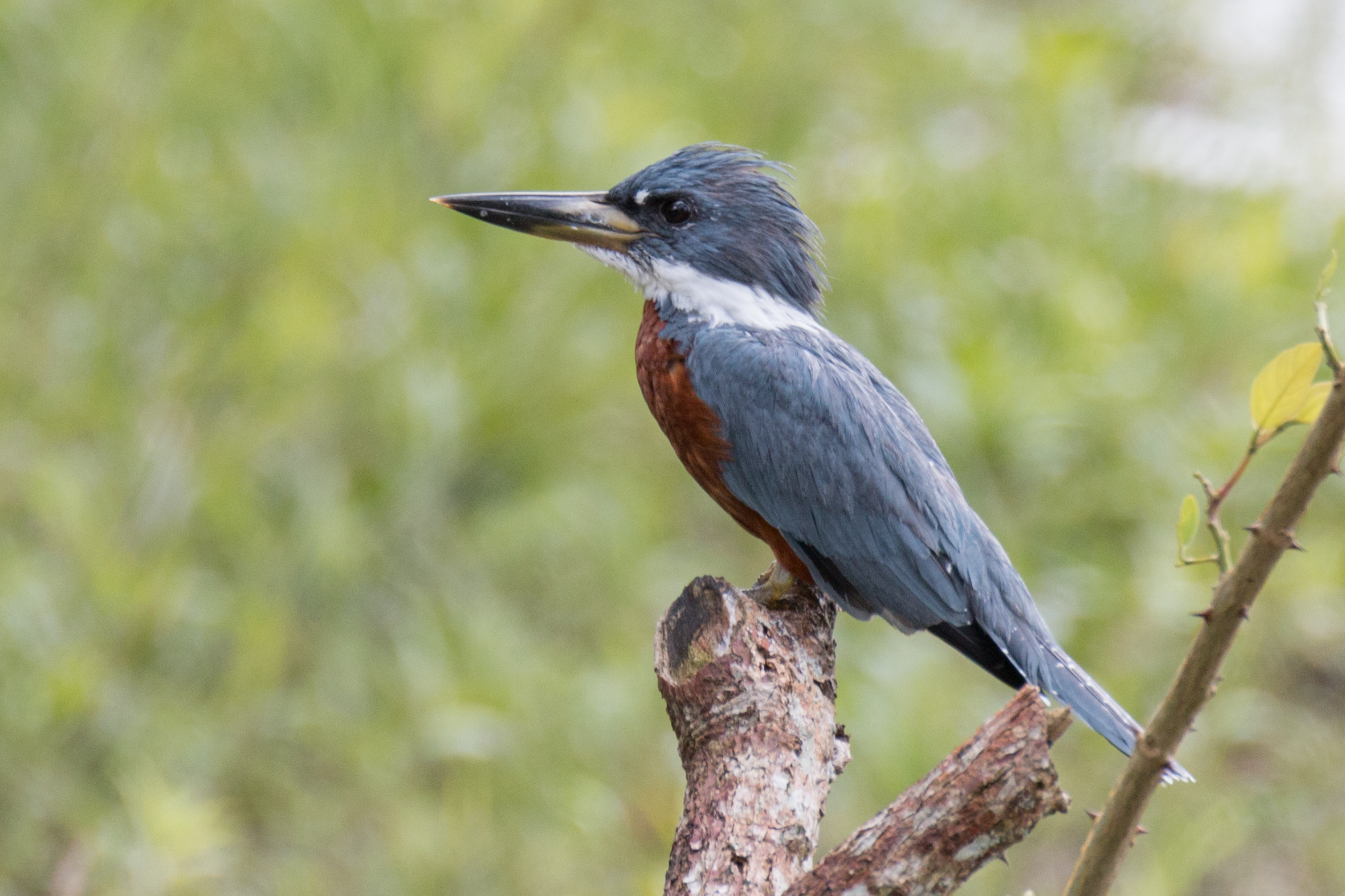 Trinidad 2014, Caribbean